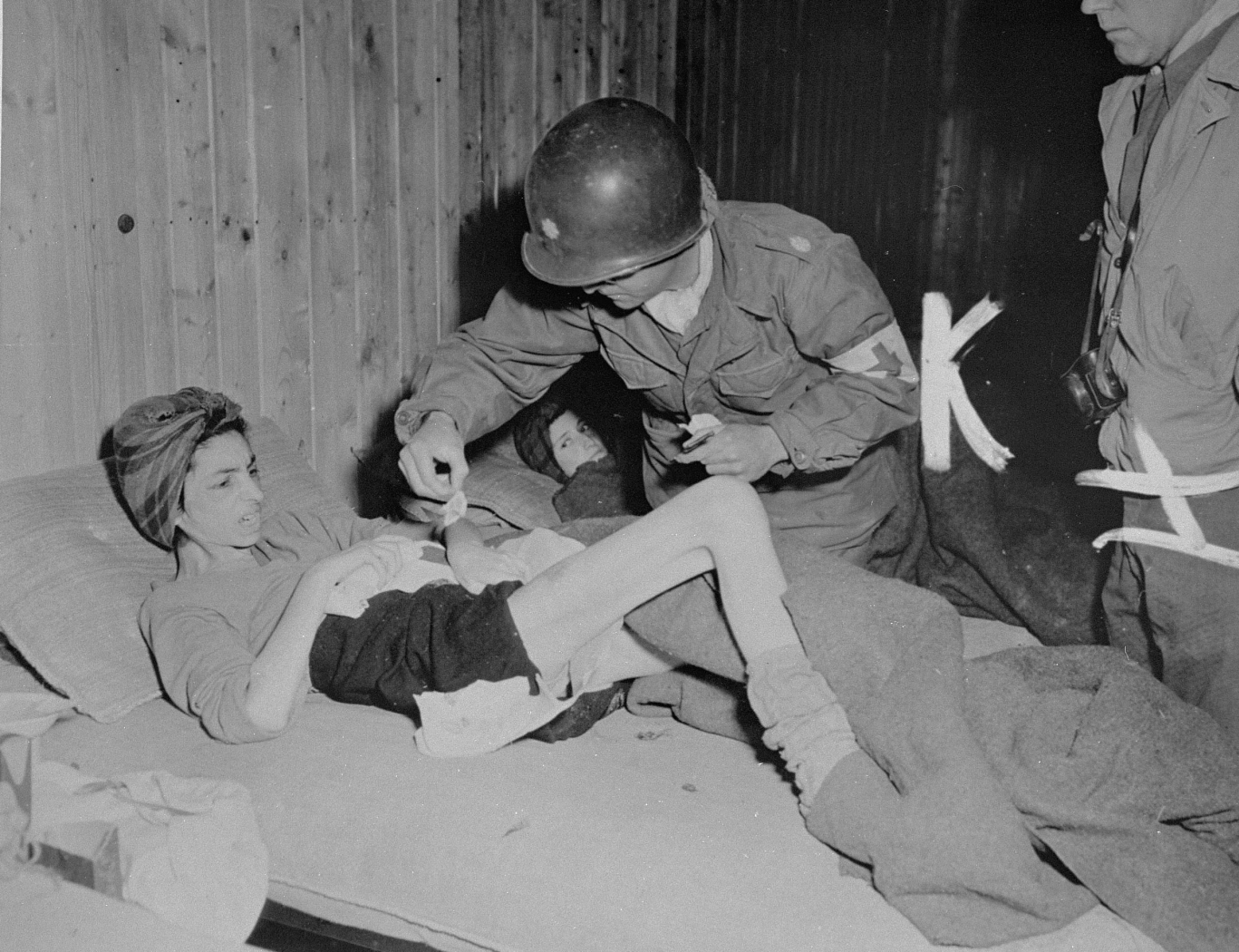 Lt. Col. J.W. Branch, Chief Surgeon of the 6th Armored Division, 3rd U.S. Army, dresses body sores of a Hungarian woman survivor in Penig, a sub-camp of Buchenwald. SS guards evacuated all those prisoners who could still walk upon the approach of American troops, leaving behind those too ill to move. Women in the camp suffered from starvation, typhus, diptheria, and tuberculosis.